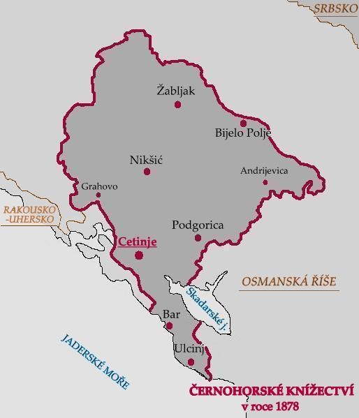 Principality of Montenegro after the Berlin Congress in 1878.